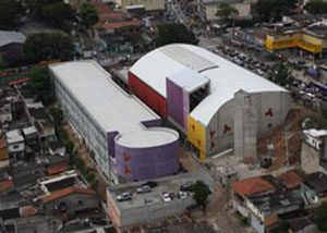 Vista área do bairro jardim Santo Antônio Osasco